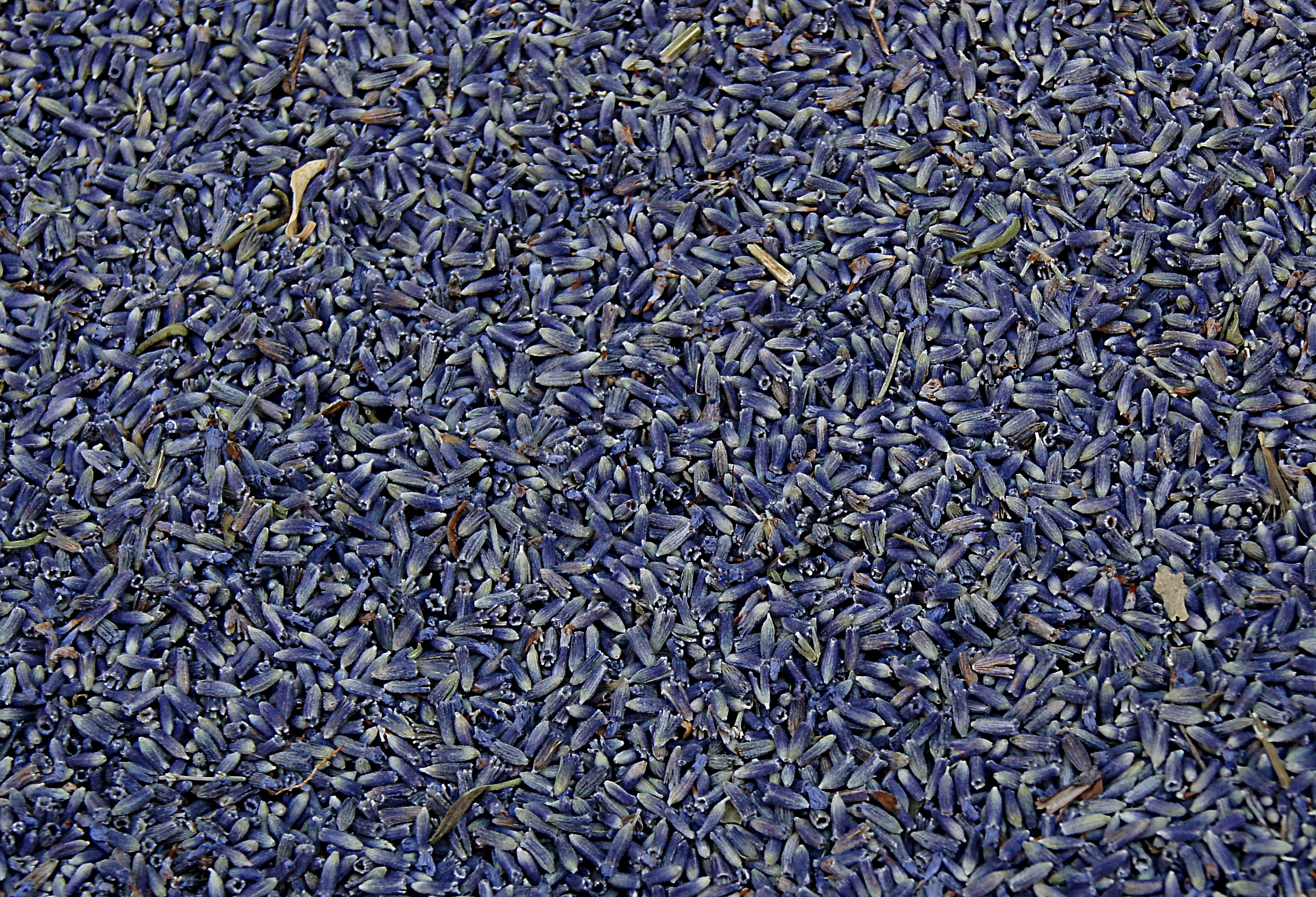 Lavender, dried plant